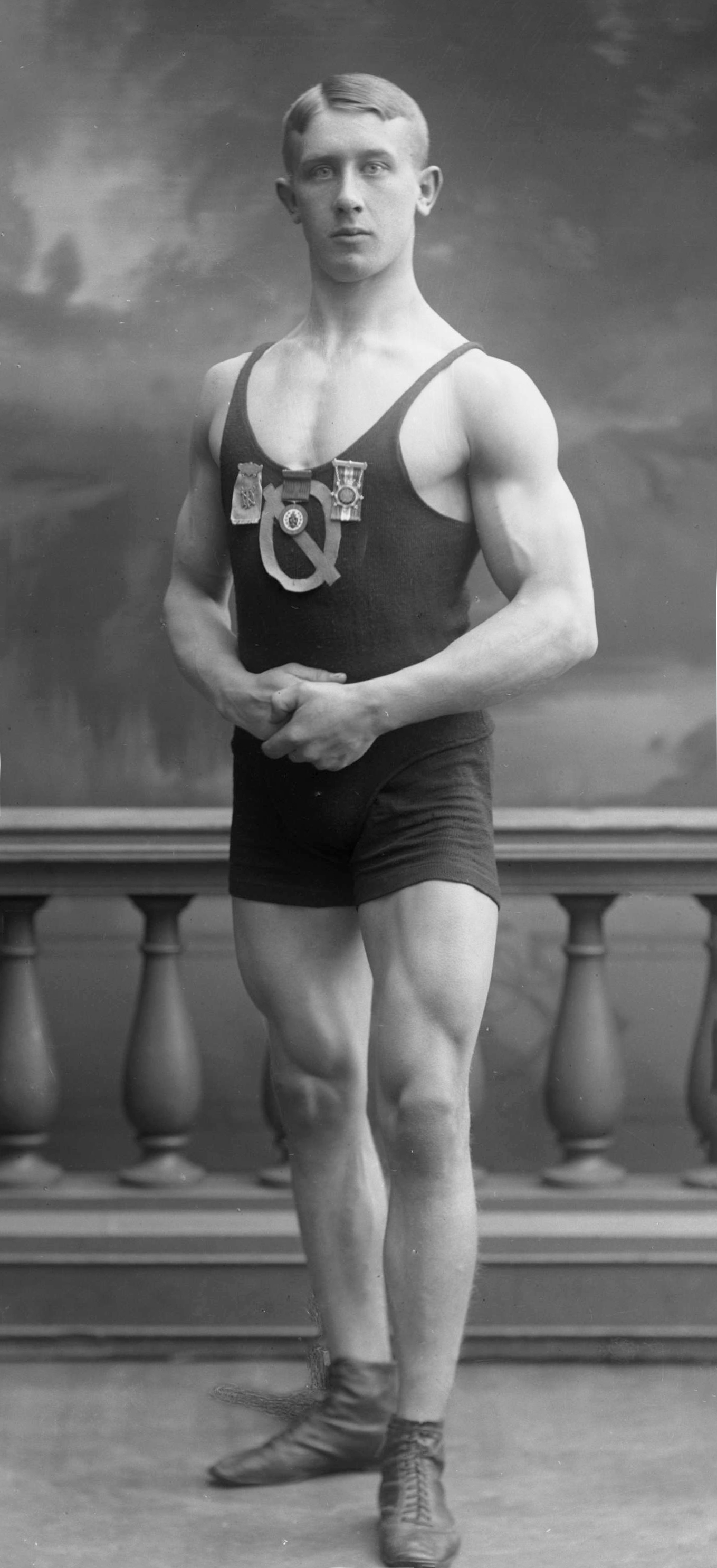 Herbrand Lofthus